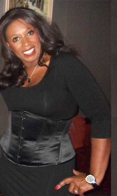 Angie Le Mar at fundraising event.